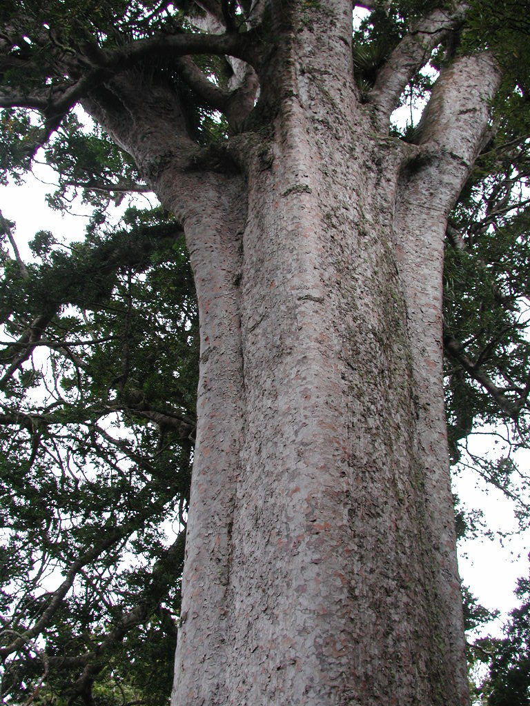 Trunk and crown of the 1200 year old Square Kauri near the Tapu-Coroglen Road on the Coromandel Peninsula; the square trunk is over 2 m wide